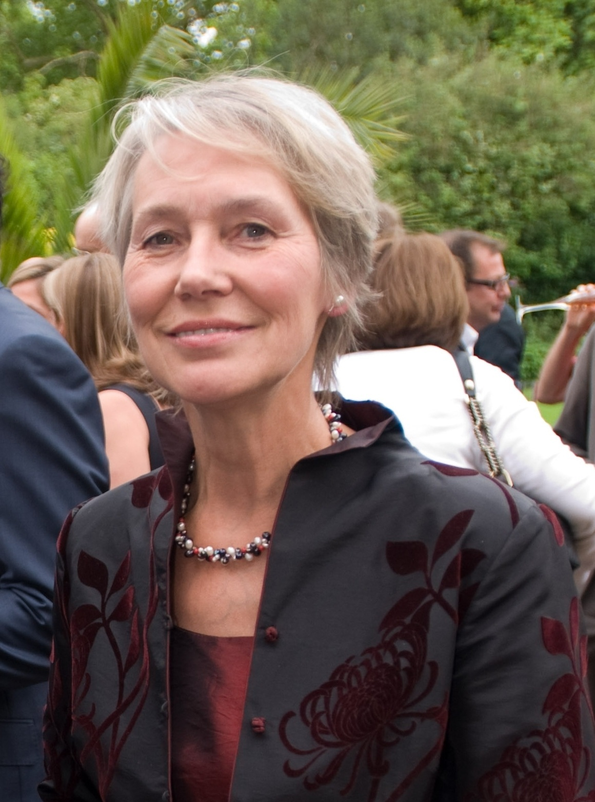 Virginia Bottomley at the Financial Times annual summer party in the garden of Lancaster House, London